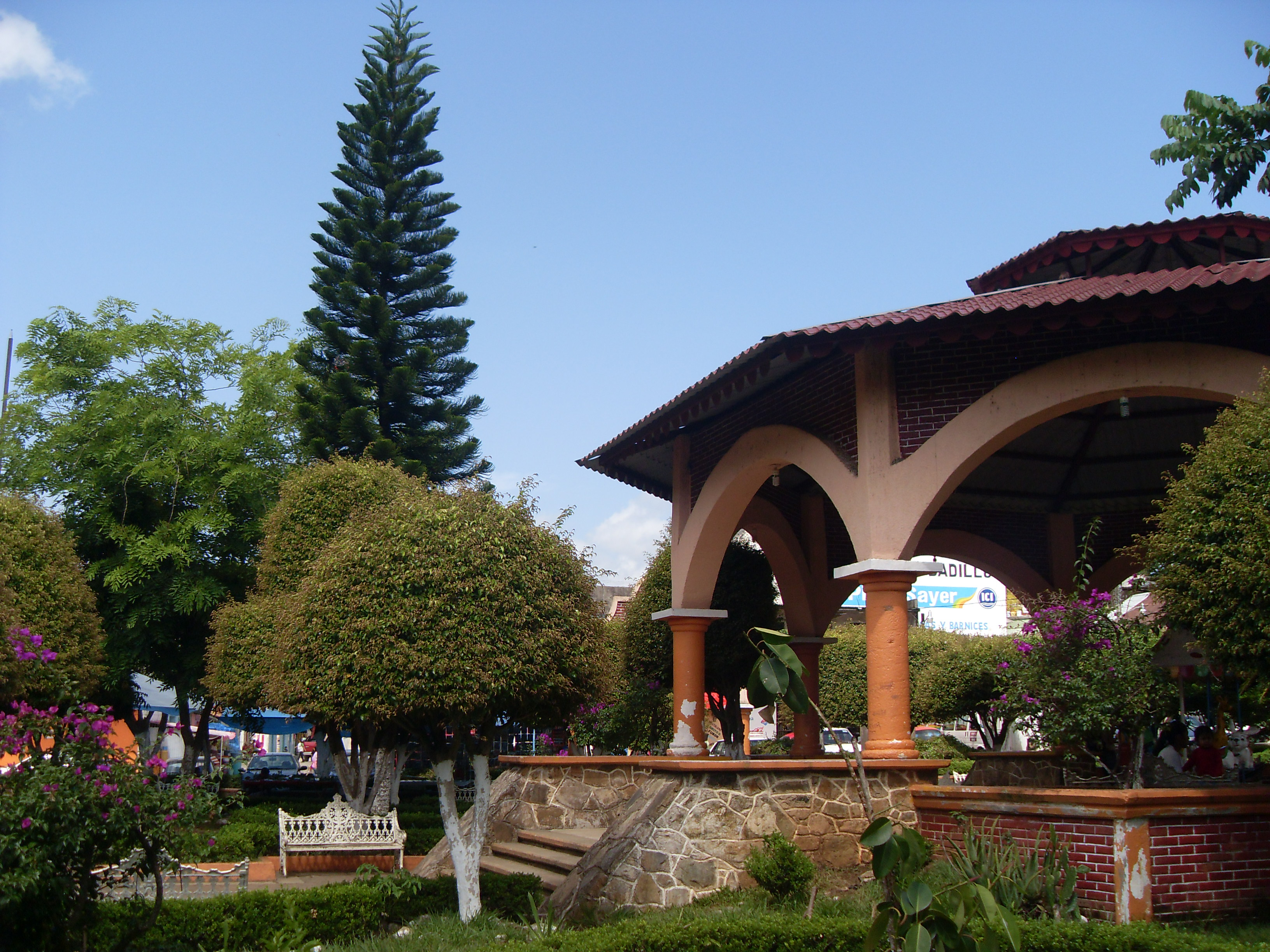 Plaza and park pavilion in downtown Calnali — in the state of Hidalgo.